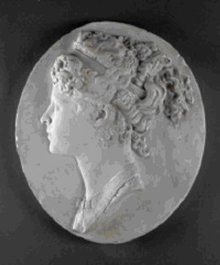 Parys Filippi: Portrait of his spouse